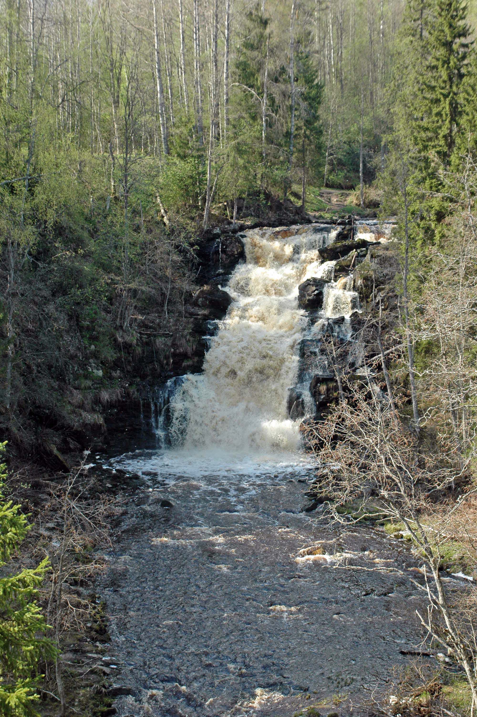 Yukankoski waterfall in Pitkyarantsky District, Karelia, Russia.